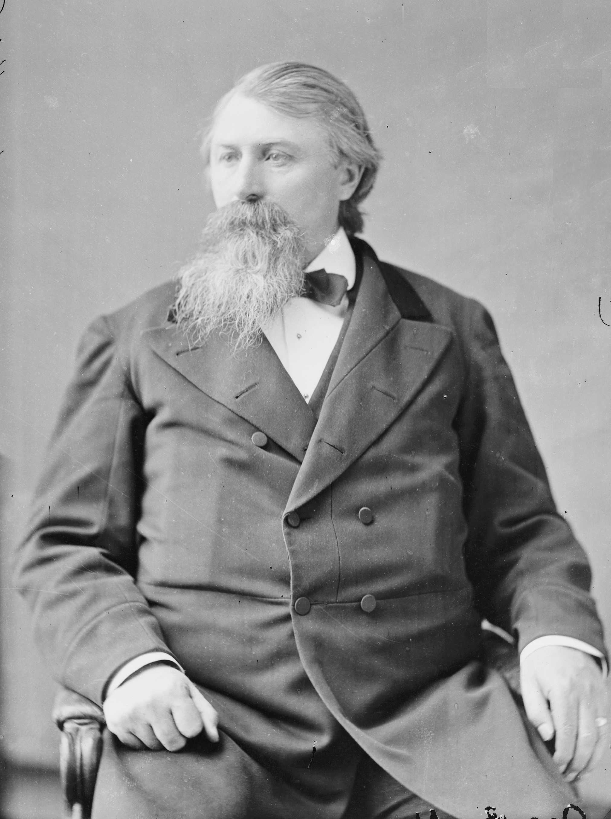 Rusk, Hon. Jeremiah, Gov of Wisc. Secty of Agri.